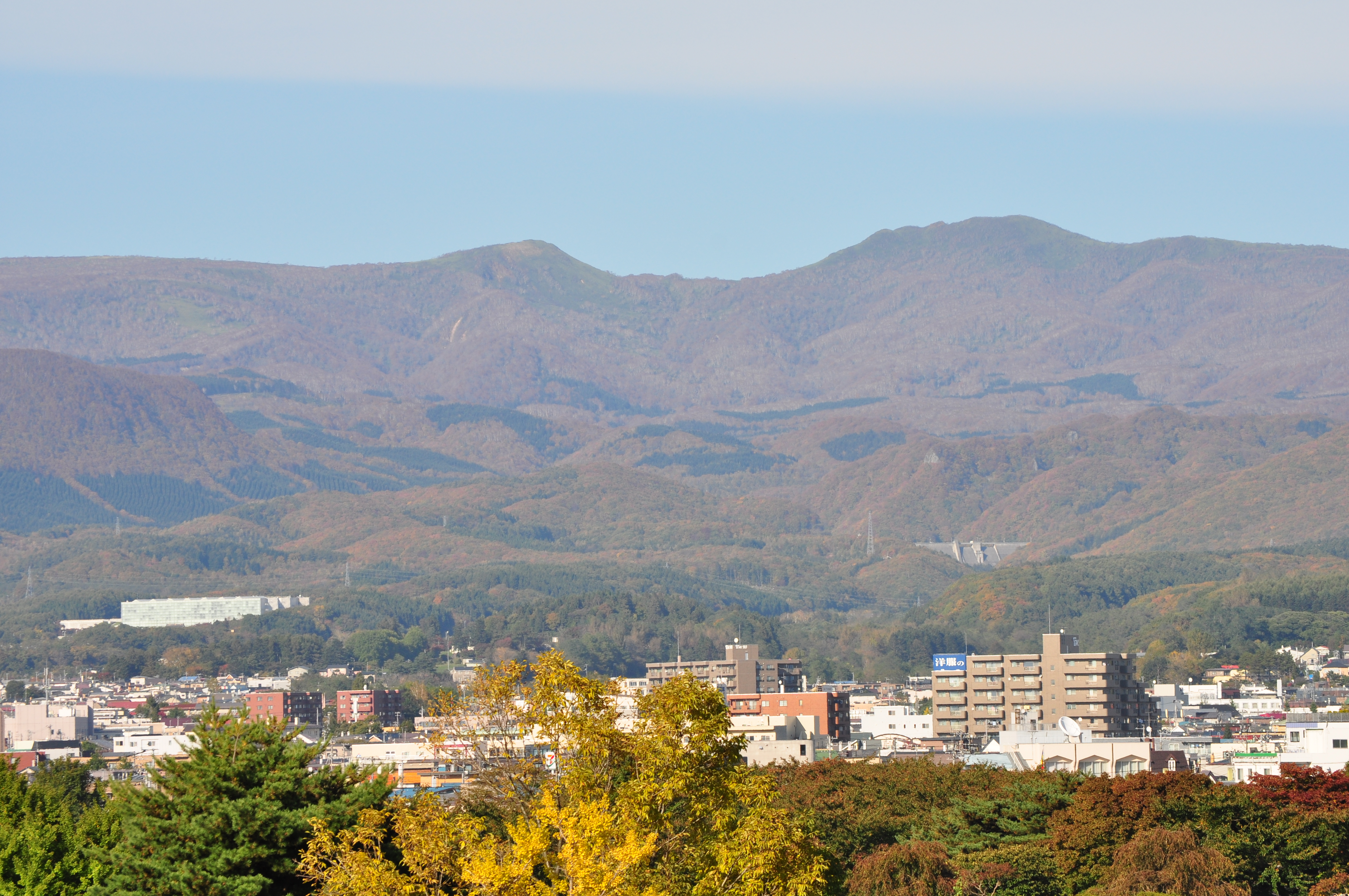 Mounts Hakamagoshi (right) and Eboshi (left) as seen from central Hakodate